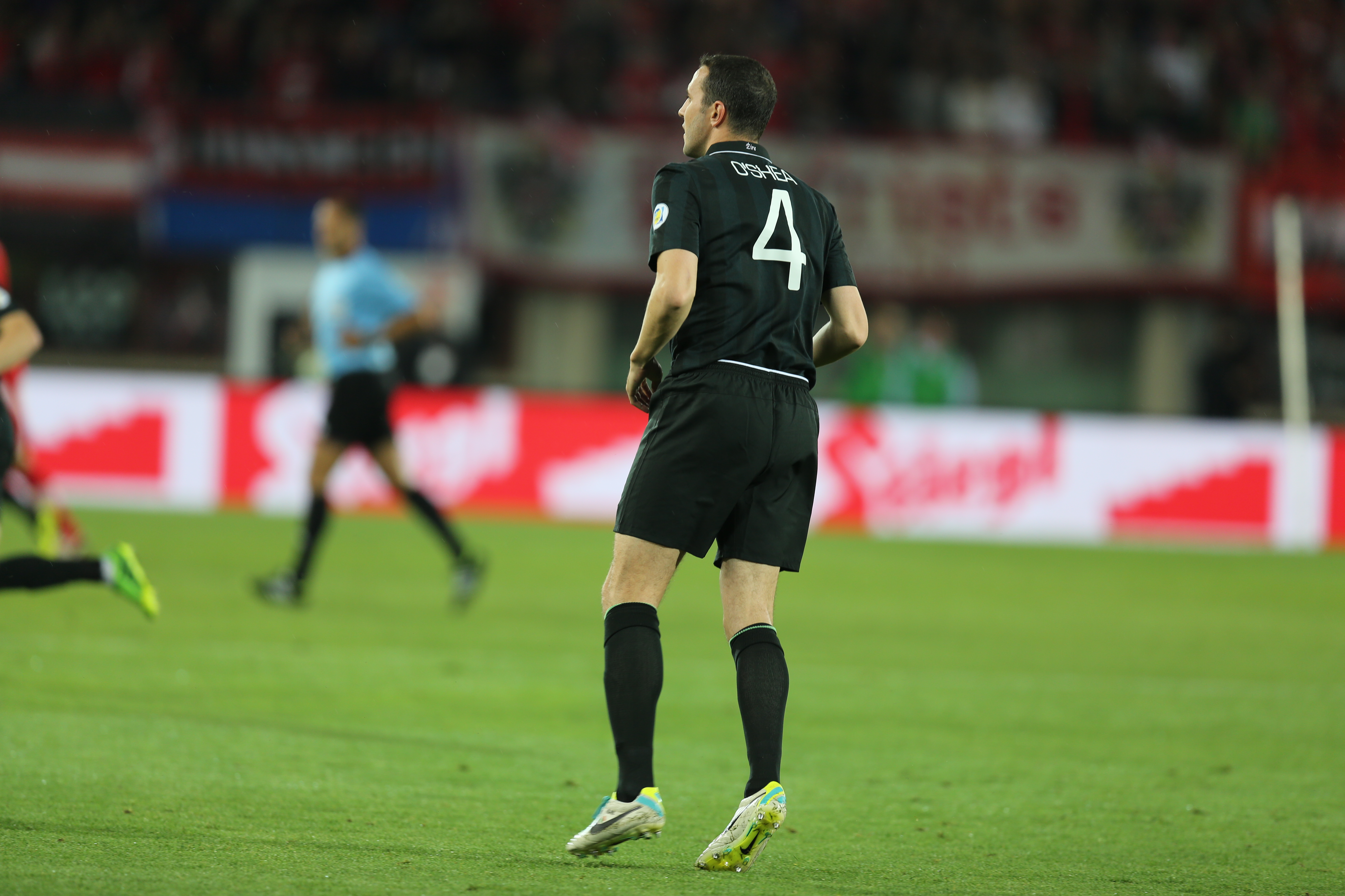 2014 FIFA World Cup qualification (UEFA), Group C: Republic of Ireland national football team at 10. September 2013 before the match against the Austria national football team (0:1) in the Ernst-Happel-Stadion in Vienna. Here: John O'Shea, irish defender The making of this work was supported by Wikimedia Austria. For other files made with the support of Wikimedia Austria, please see the category Supported by Wikimedia Österreich.